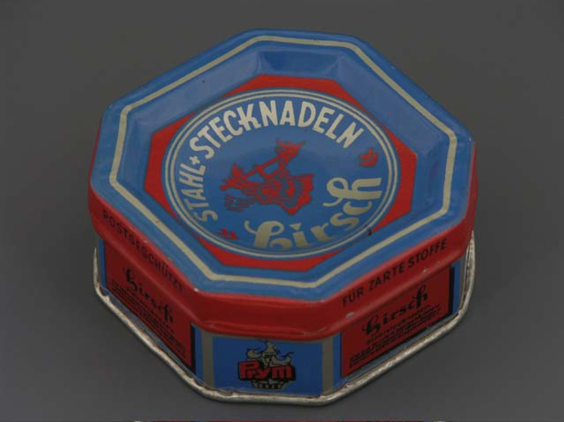 Metal case for Hirsch Stahl Stecknadlen; pins from the second half of the 20th century.